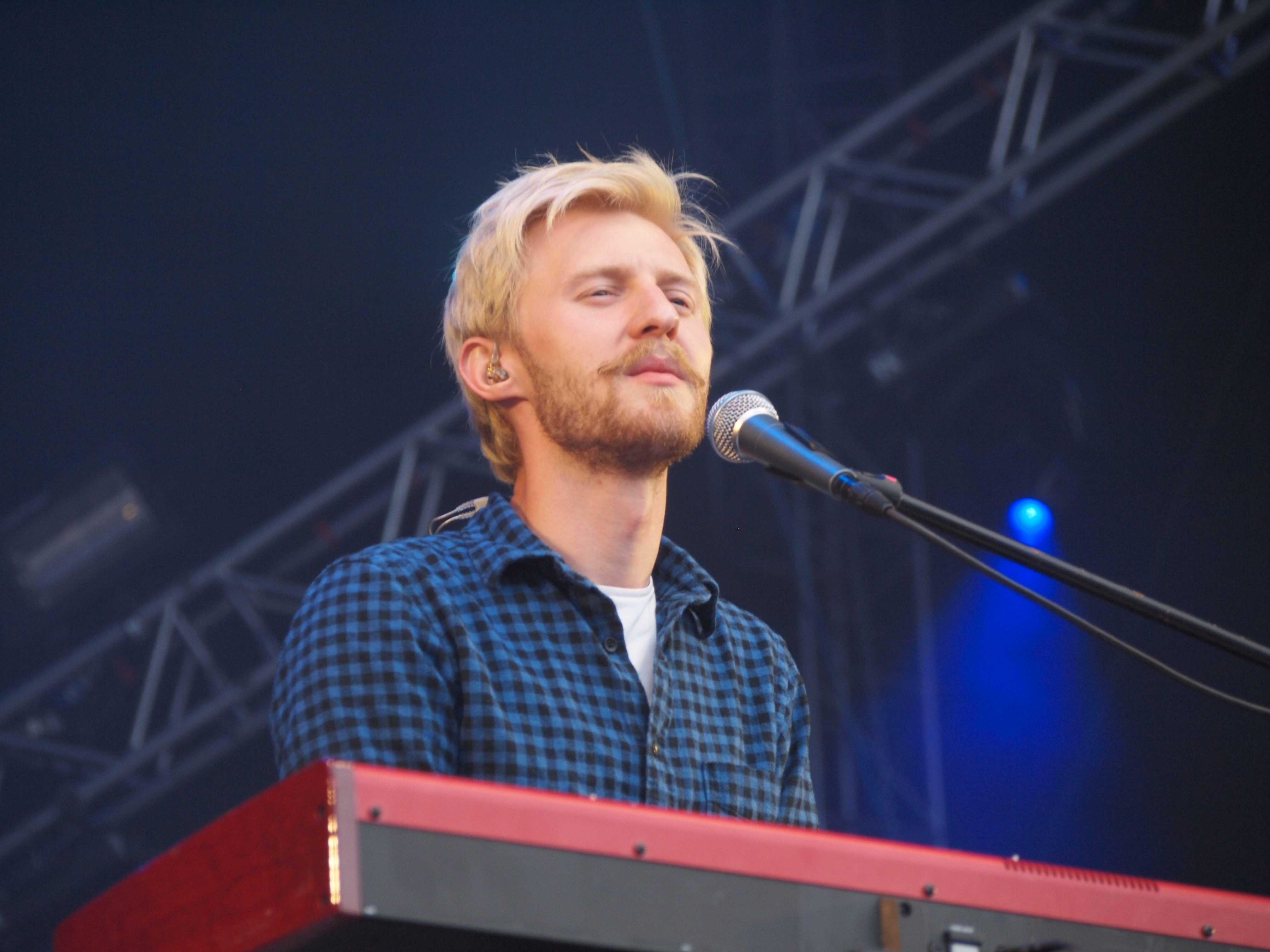 Ewert Sundja from Estonian band Ewert and the Two Dragons performing live at Positivus Festival.